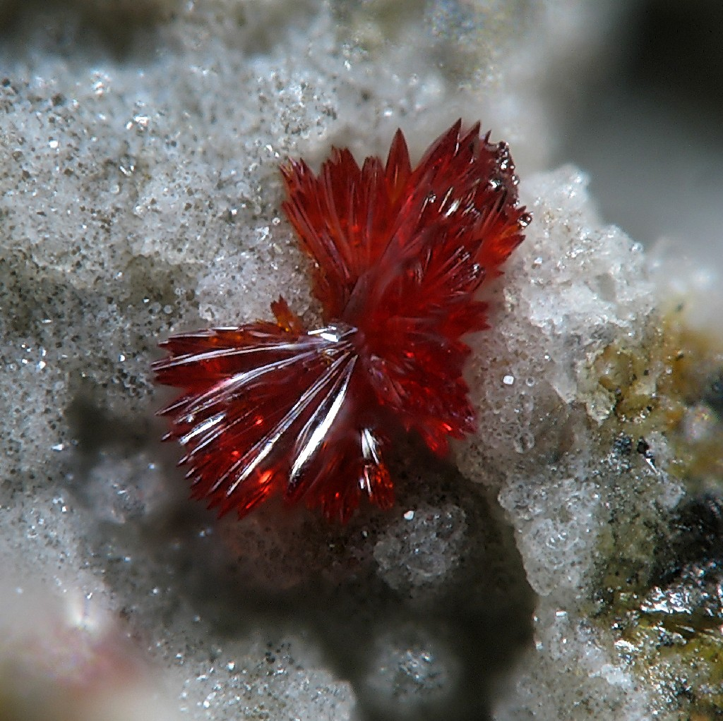 Cetineite Locality: Le Cetine di Cotorniano Mine (Le Cetine Mine; Cetine Mine; Rosia), Chiusdino, Siena Province, Tuscany, Italy Picture width 0.8 mm. Collection and photograph Christian Rewitzer